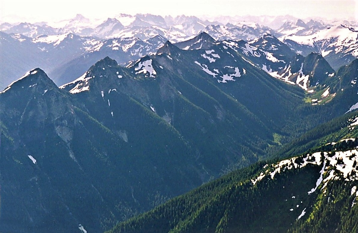 The Skagit Range seen from Mount Larrabee in the North Cascades mountains. August 1999. Photo has annotations identifying peaks.